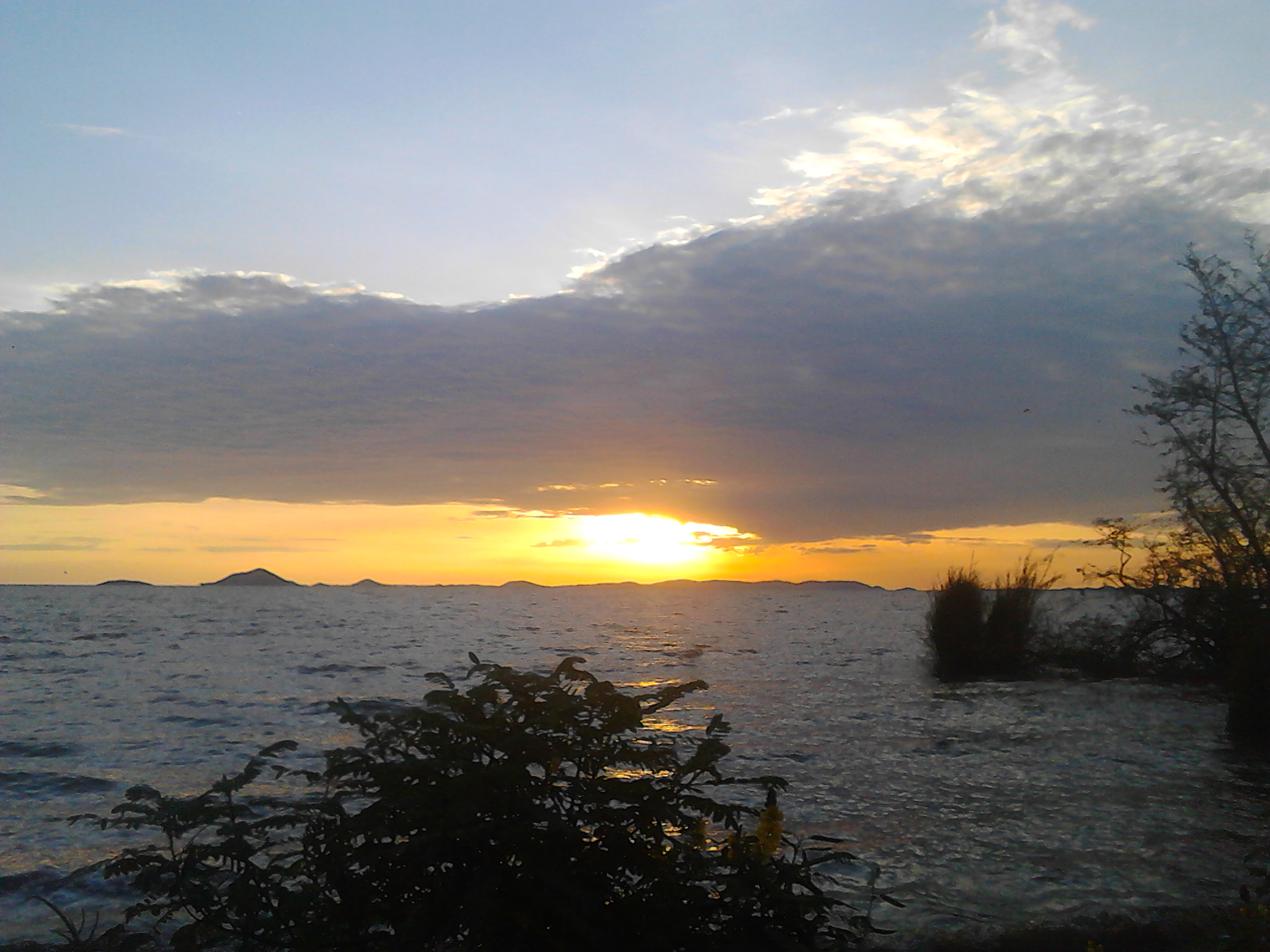 This photo was taken at Lake Victoria in Kenya, East Africa. This is an image of music and dance from Kenya